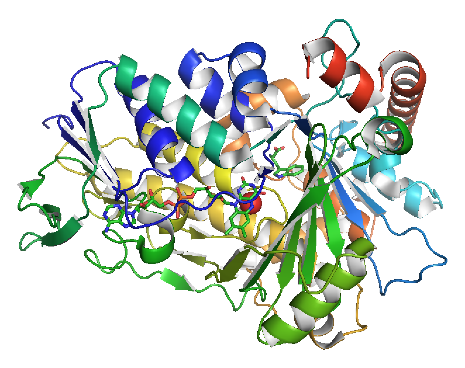 Crystal structure of tryptophan-7-halogenase from the PDB